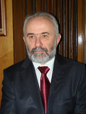 Vlado Matevski, botanist from Macedonia